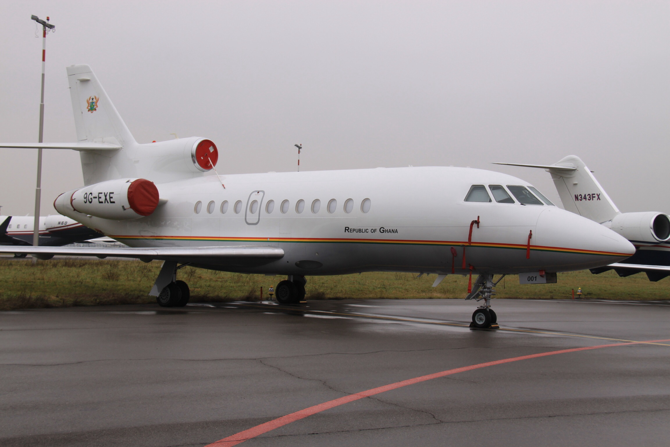 At Zurich Kloten International Airport